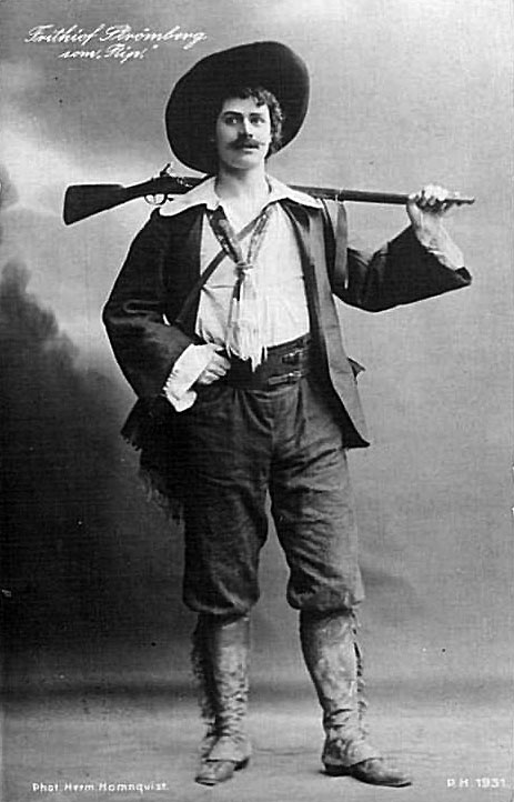 Frithiof Strömberg i Rip